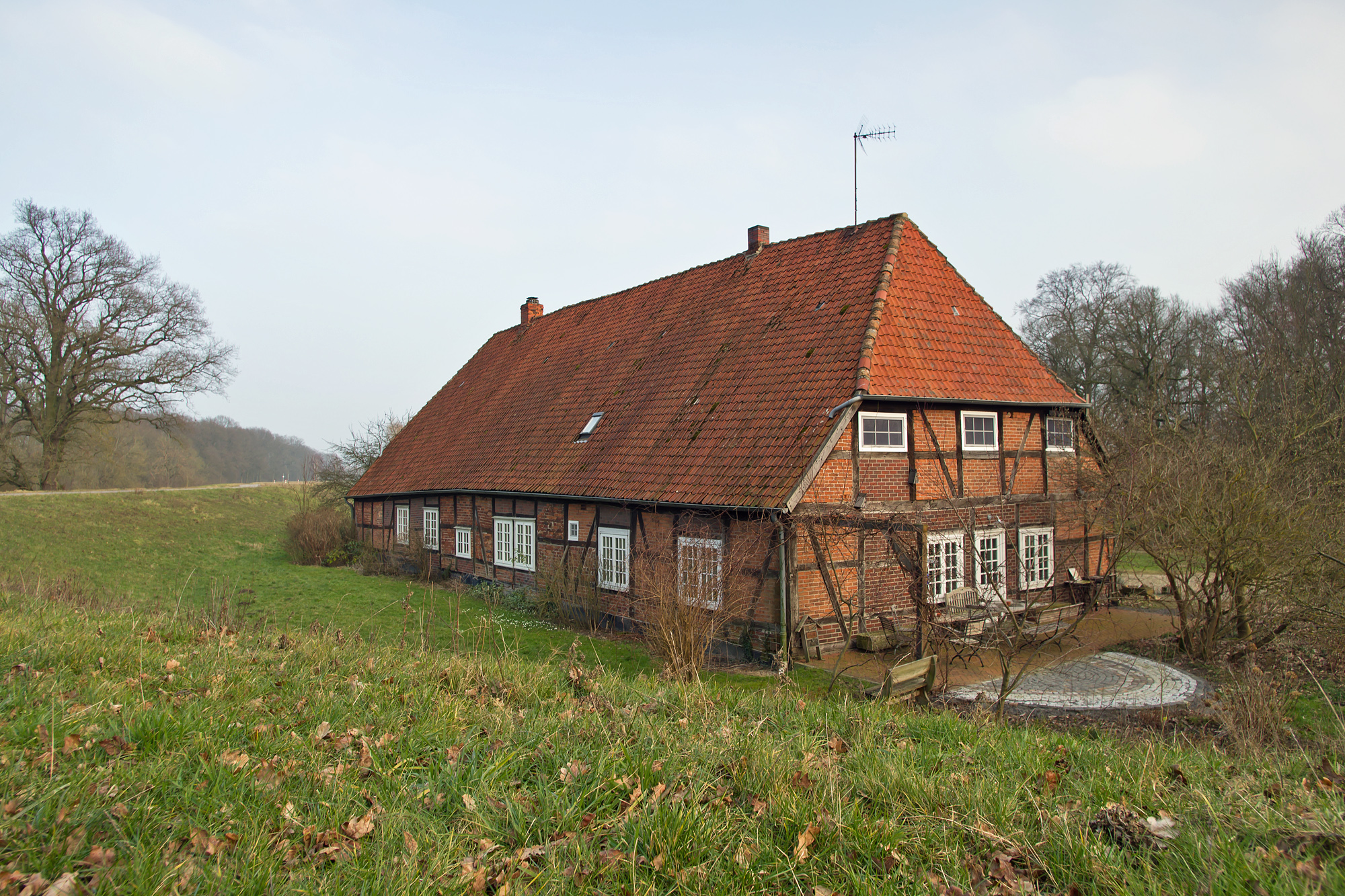 Cultural heritage monument "Jasebeck - former dairy building" at the location Jasebeck (district Lüchow-Dannenberg, northern Germany).